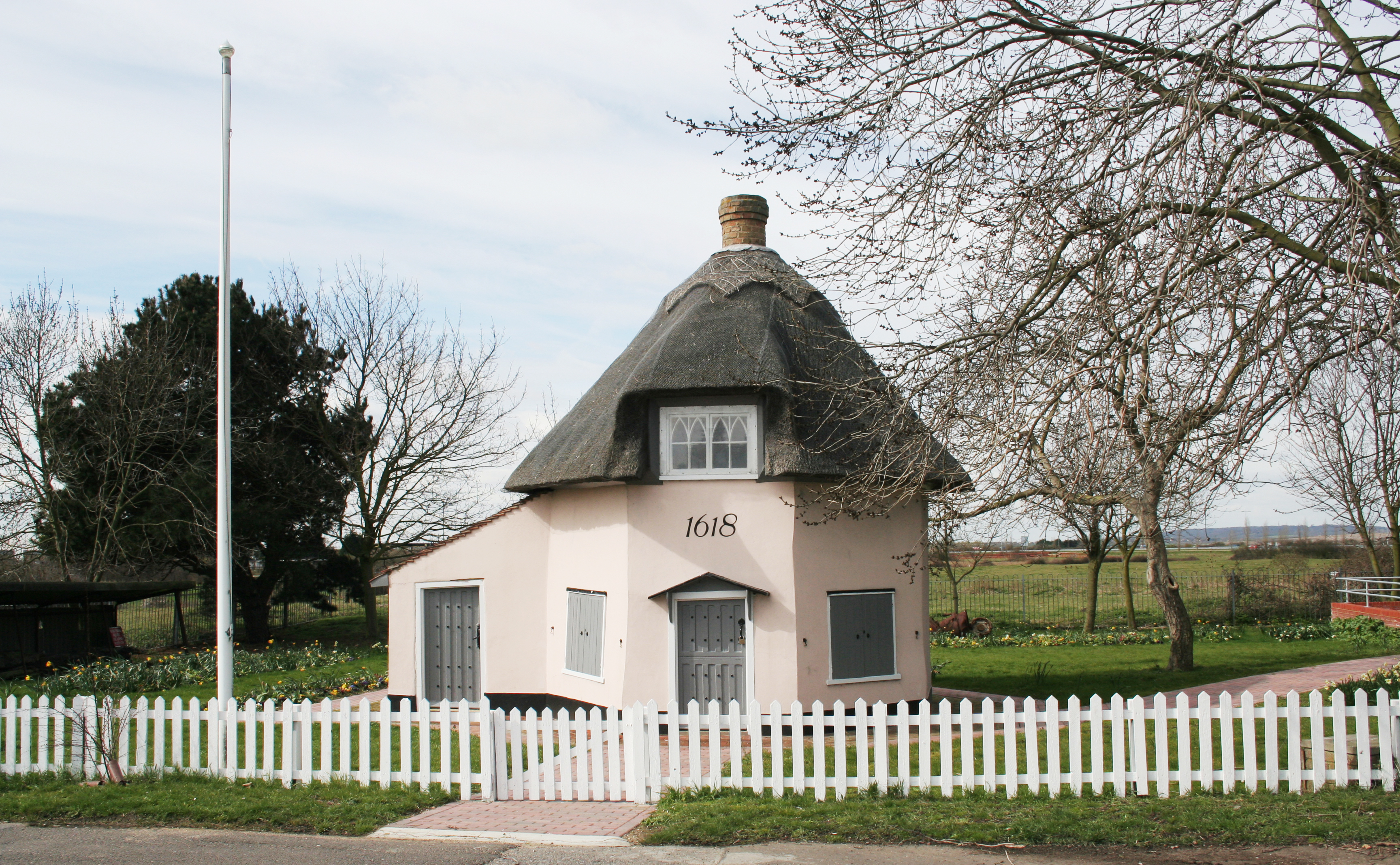 One of four octagonal Dutch cottages from the 17th century which remain on Canvey island. The above is dated from 1618 and now functions as a museum. the 2nd is in Haven Road and the 3rd and 4th are next to each other in Ellesmere Road